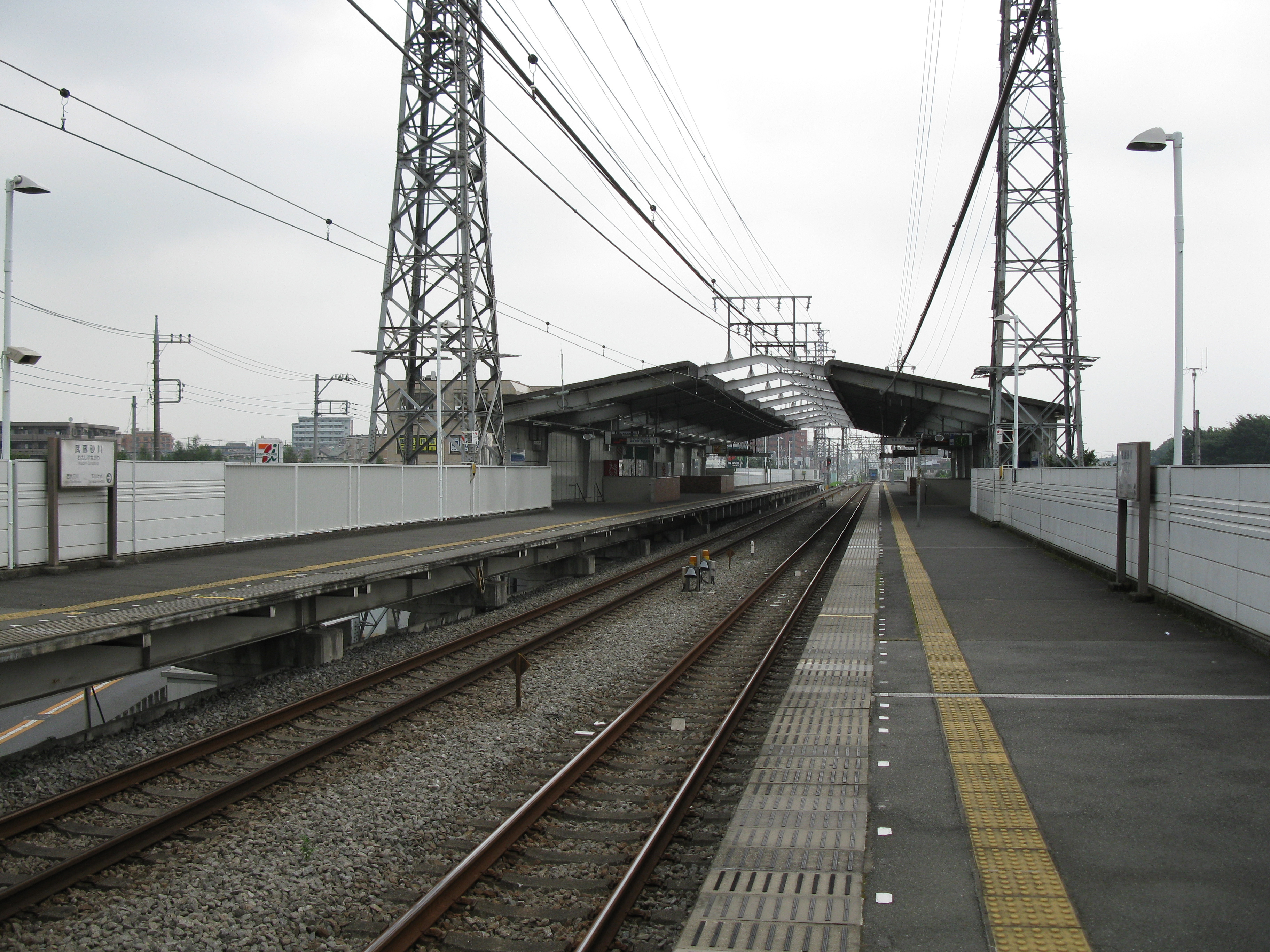 Musashi-Sunagawa Station platform (Seibu Railway Haijima Line)